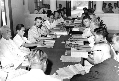 Conseil de la Fédération Taï - Indochine Tonkin, circa 1950. De dos le Président de la Fédération Taï S.A. le Seigneur Deo Van Long, A gauche (avec la moustache) S.A. le Seigneur Deo Van An